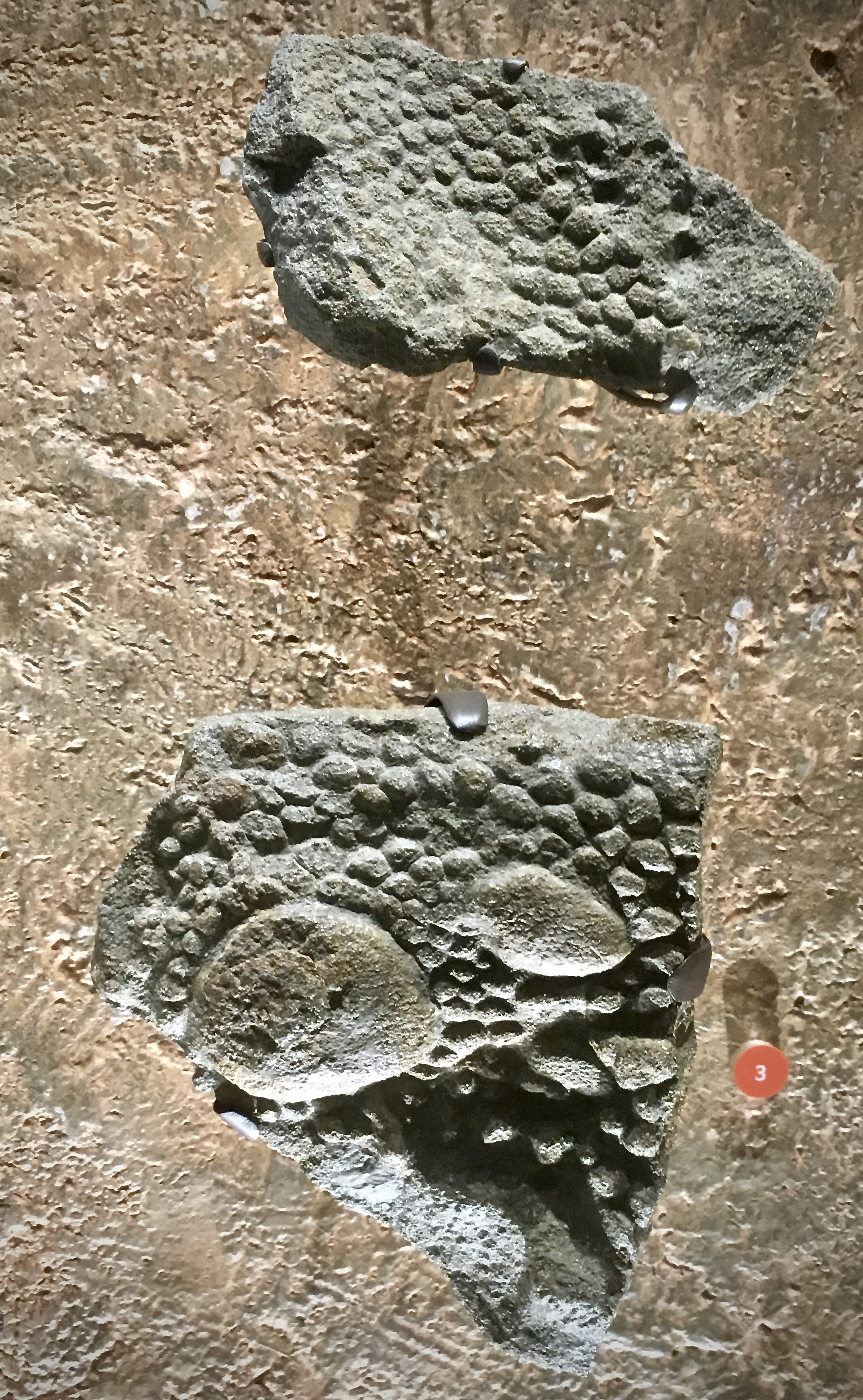 Skin impression fossils of Magnapaulia laticaudus, on display at the Natural History Museum of Los Angeles County